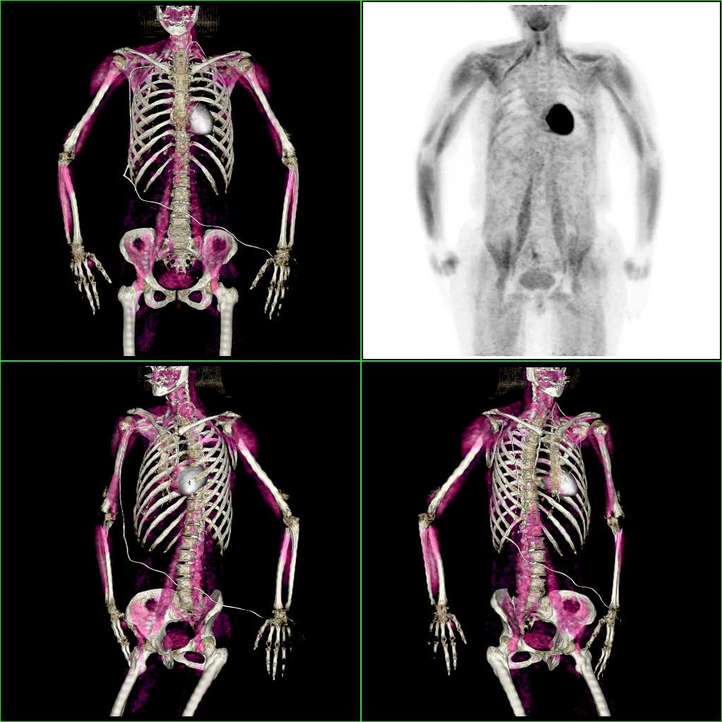 physiologic muscle uptake shown in FDG PET/CT scan.